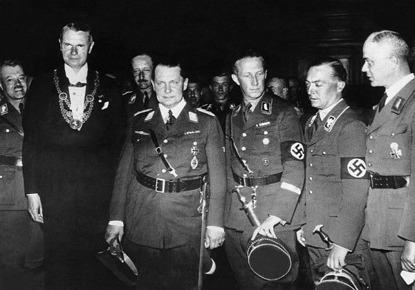 Gathering of high-ranking Nazi officials in Berlin. Left to right: Georg von Detten (chief of the Political Office of the SA Supreme Command), Heinrich Sahm (Lord Mayor of Berlin), August Wilhelm of Prussia (SA-Group Leader), Hermann Goering (Minister President of Prussia), Julius Lippert, Karl Ernst (Commander of the Berlin SA) and Artur Görlitzer (Deputy-Gauleiter of Berlin).